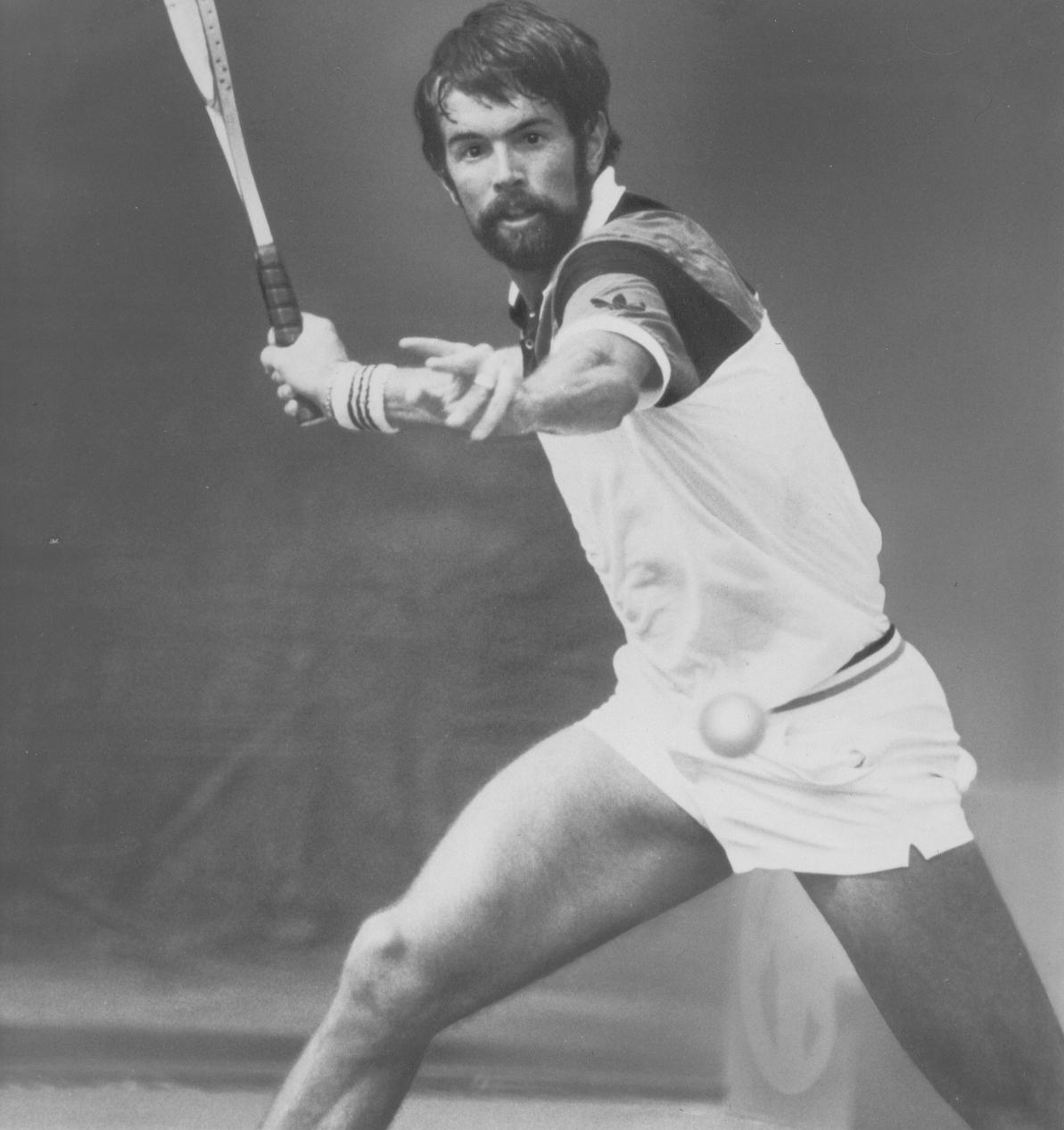 Action Shot of Pat Du Pré when on tour.